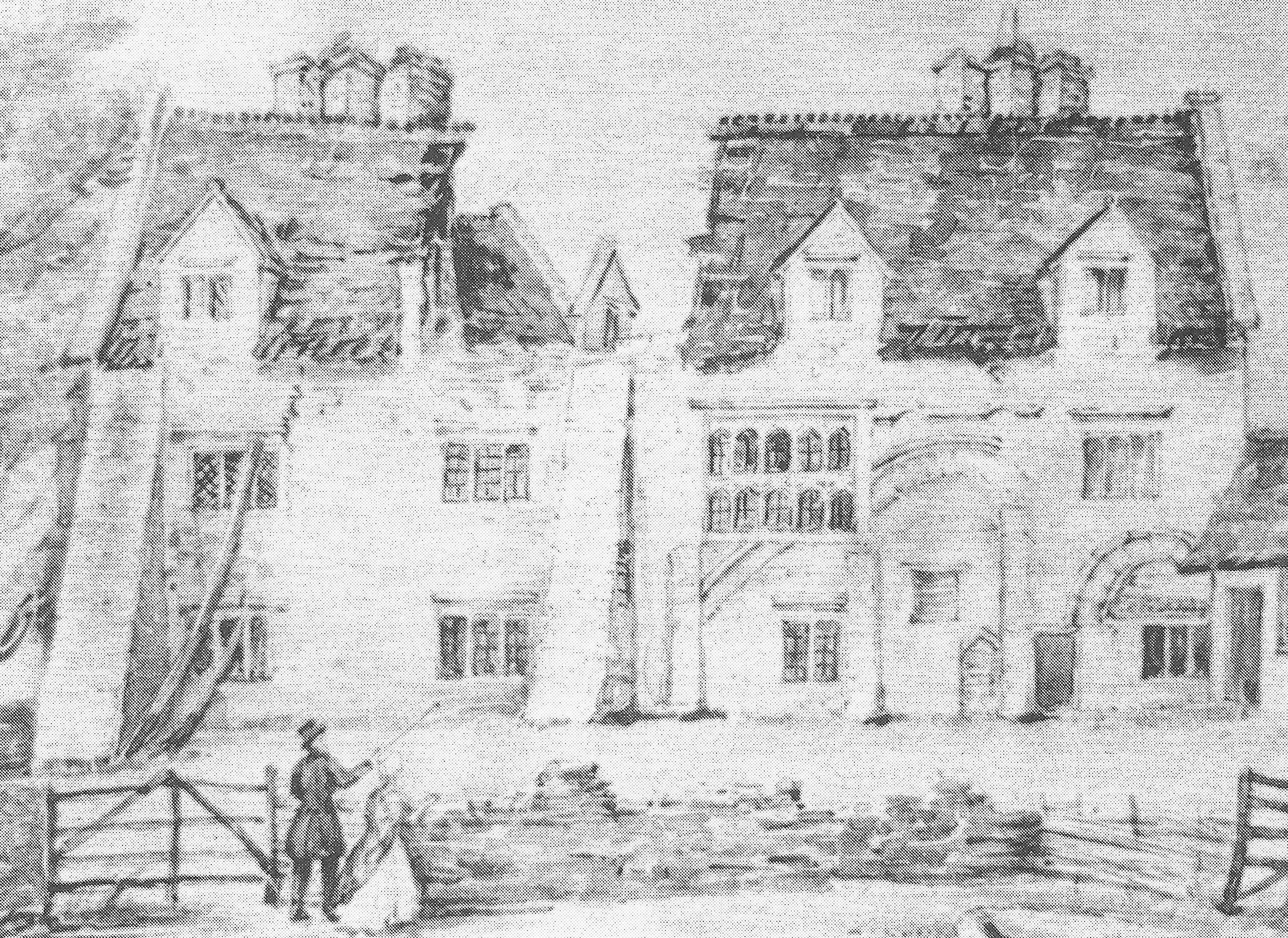 This is a scan from page 90 of The Cartulary of Chatteris Abbey by Claire Breay (Woodbridge: Boydell Press, 1999) of an 1847 watercolour owned privately by Mrs Helen Pope of Chatteris, one of only three known paintings of Park House before its demolition. Although a privately-owned painting, the copyright has expired as a virtue of its age, although credit should go to Claire Breay for photographing the painting. If this is not the case, fairuse is claimed as this is a unique non-reproducable image of a demolished building.